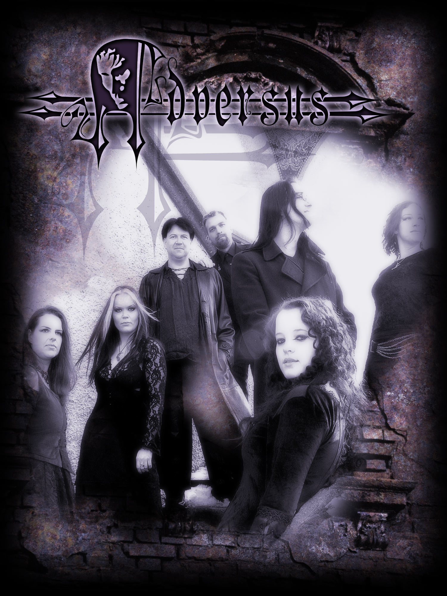 Adversus after release of "Einer Nacht Gewesenes", 2006.